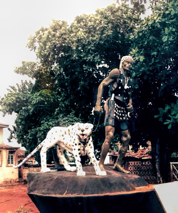 Picture of the statue of Orona of Ilaro, a great warrior of ancient times by Kayode Afolabi